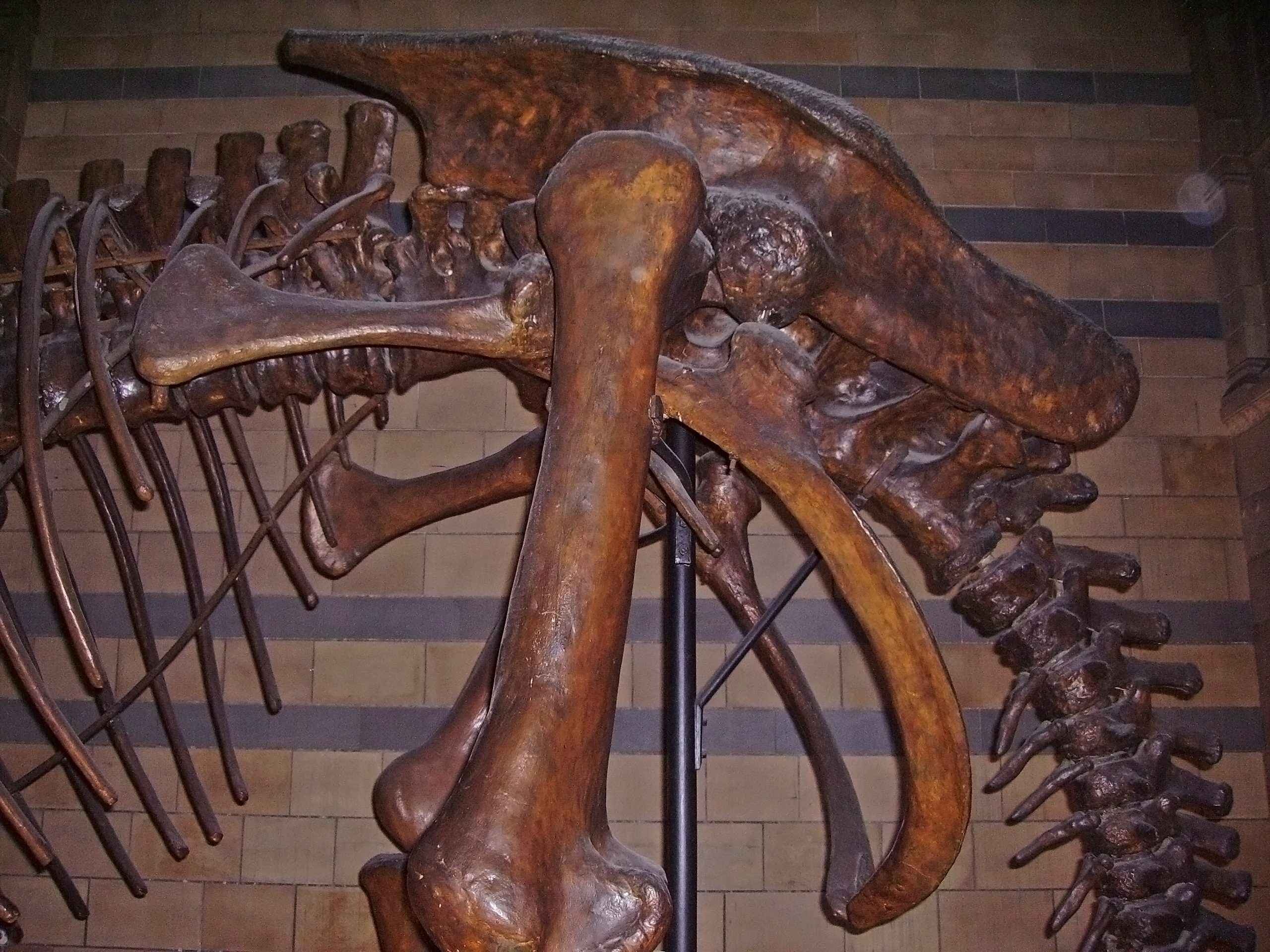 Photographer: User:Ballista